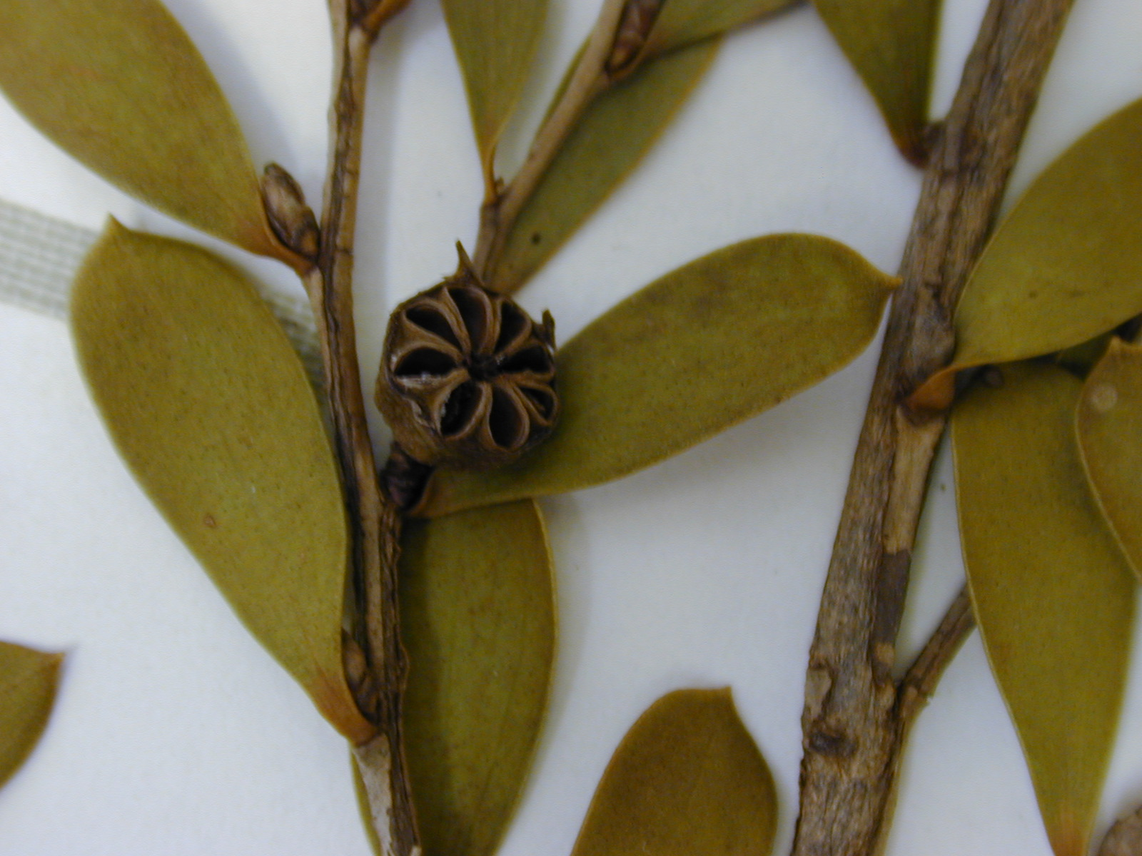 Leptospermum laevigatum (BISH specimen). Location: Oahu, Unknown location